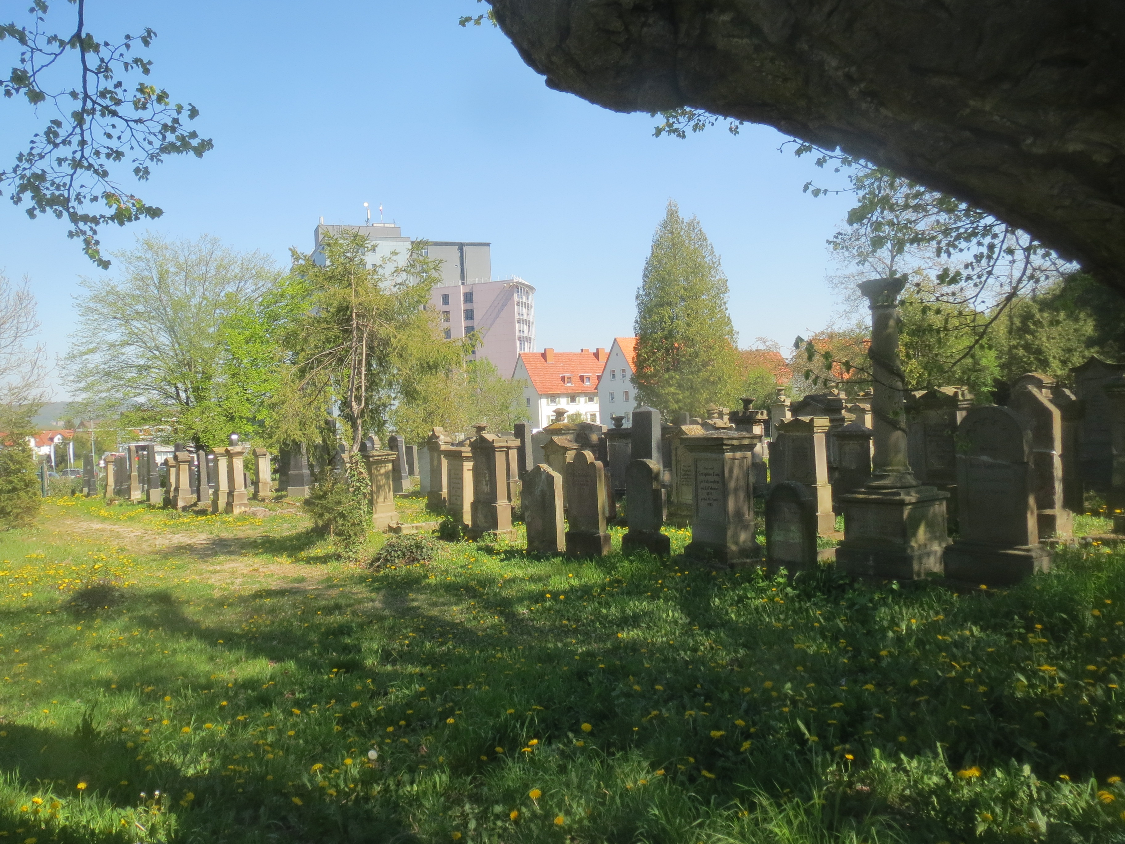 Jewish cemetery (Eschwege)